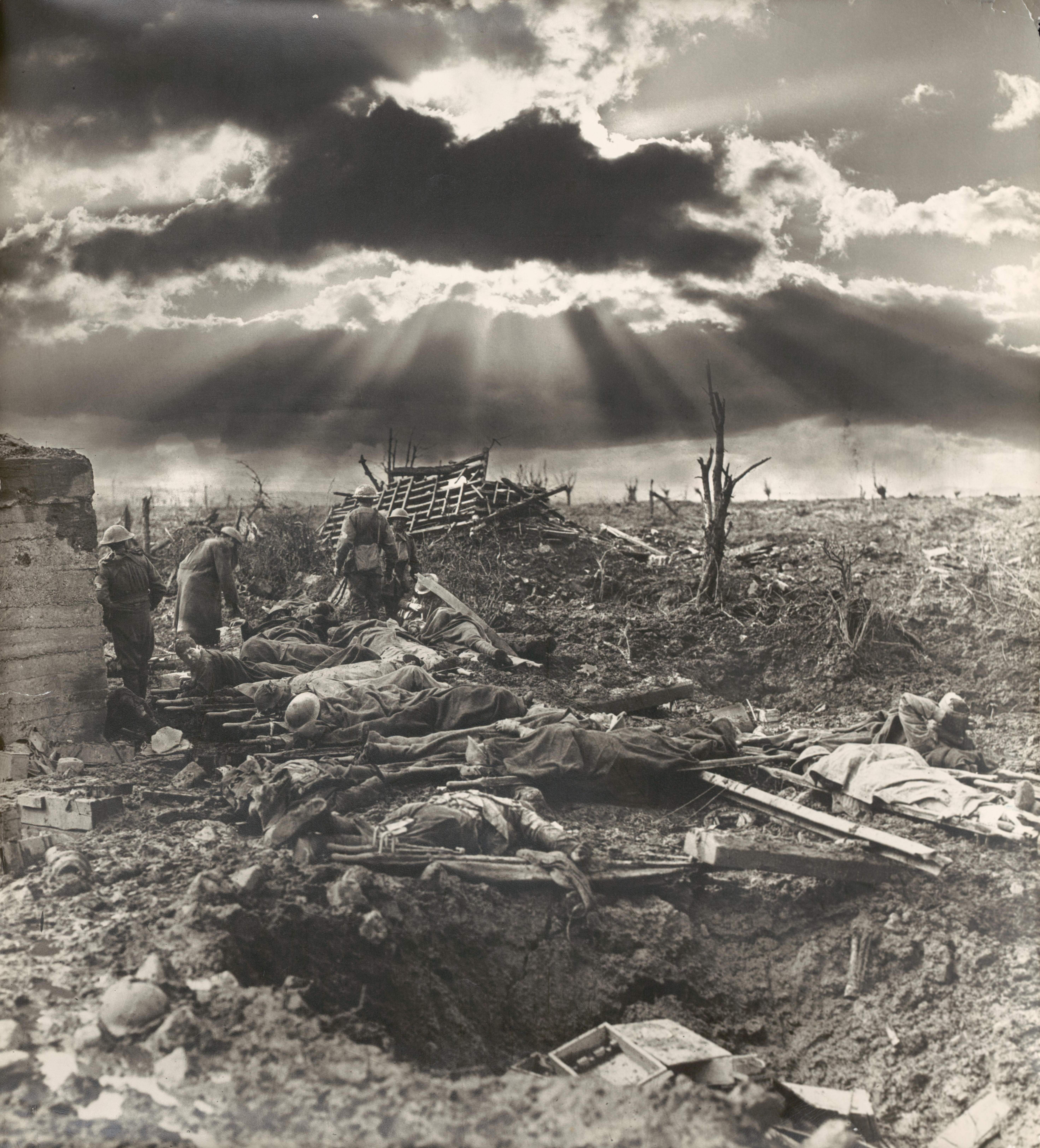 [The morning after the first battle of Paschendaele [Paschendale], Australian Infantry wounded around a blockhouse near the site of Zonnebeke Railway Station,12 October 1917 1 negative : glass ; full plate. According to Robert Dixon this is a composite image, one of four versions with different "sunburst" formations in the clouds created from originally separate negatives. See also File:Morning a Passchendaele. Frank Hurley (glass negative).jpg. This photograph was part of an exhibition of Hurley's photographs at The Kodak Salon, George Street, Sydney, in early 1919.[1]